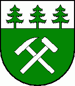 Coat of arms of Liptovský Hrádok, Slovakia